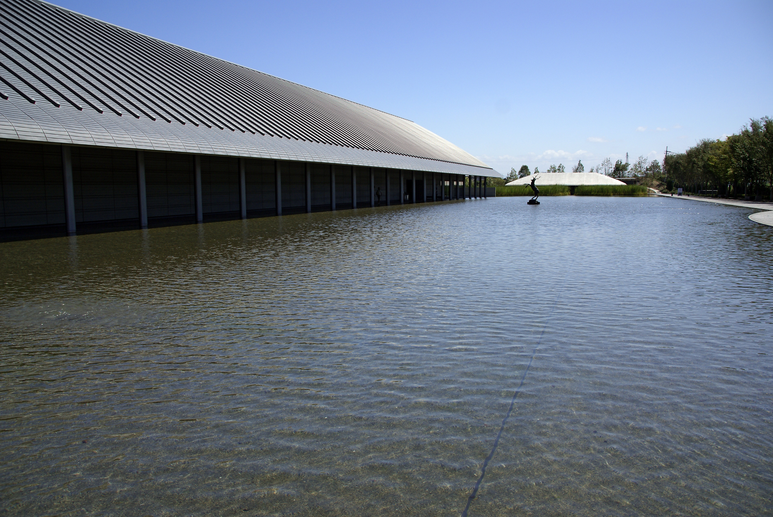 Sagawa Art Museum in Moriyama, Shiga prefecture, Japan